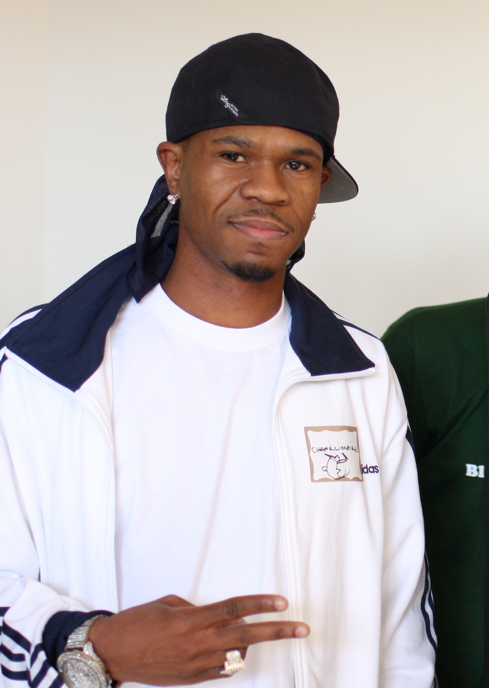 Chamillionaire and Michael Arrington. (CC) Brian Solis, and .